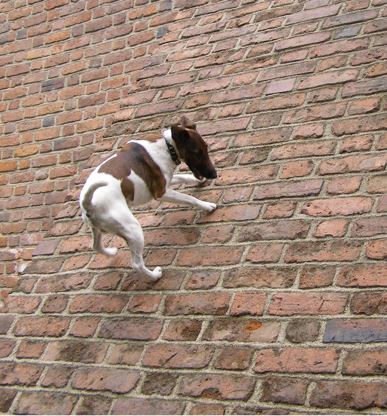 Smooth Fox Terrier from "Czeczuga" Poland.